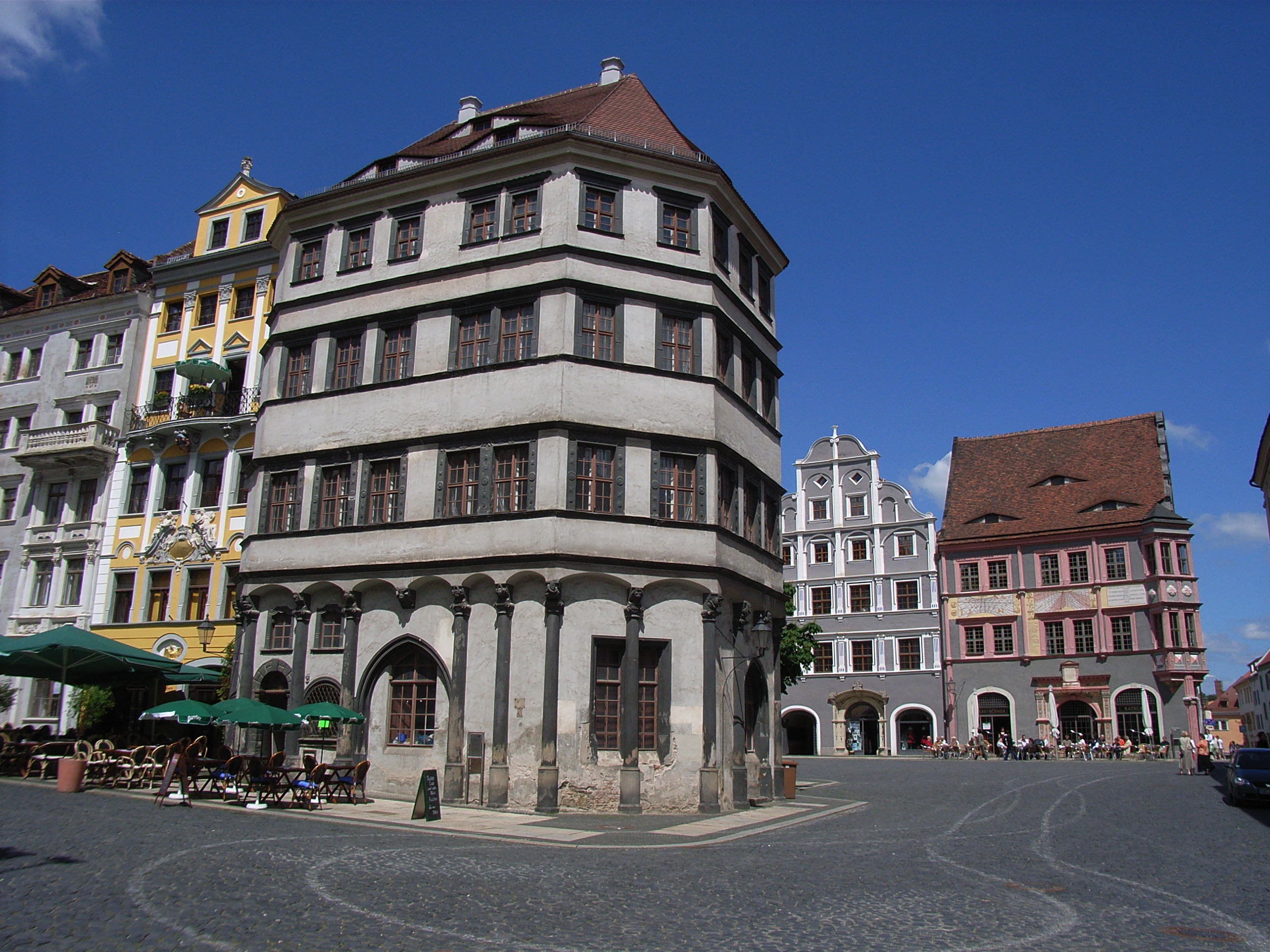 square "Untermarkt", the building in the center is called "Waage" (engl.: balance) in Görlitz, Saxony